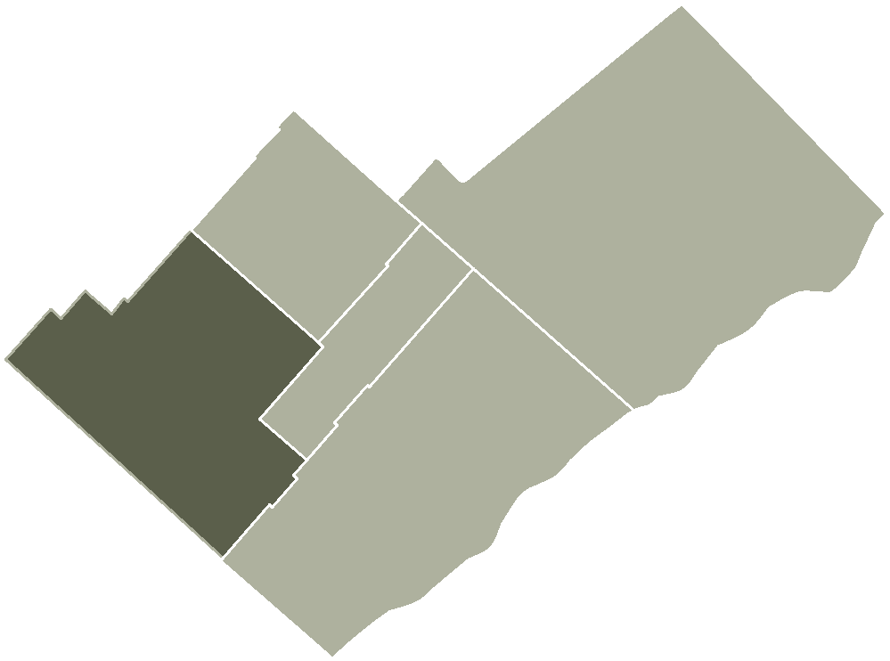 Location of the "Santa María" locality in the "San Miguel Partido" of the "Greater Buenos Aires", Argentina.